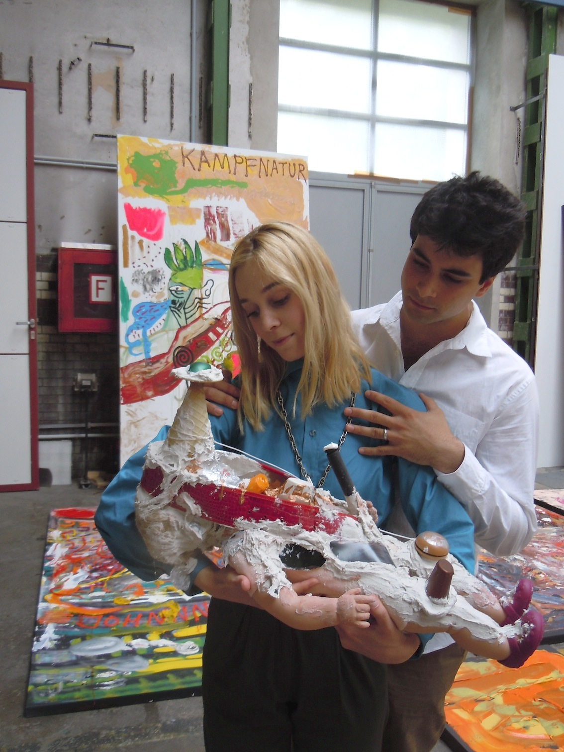 Jason Vartikar & Sarah Christian, Dealers and Directors of Hansel and Gretel Picture Garden, New York